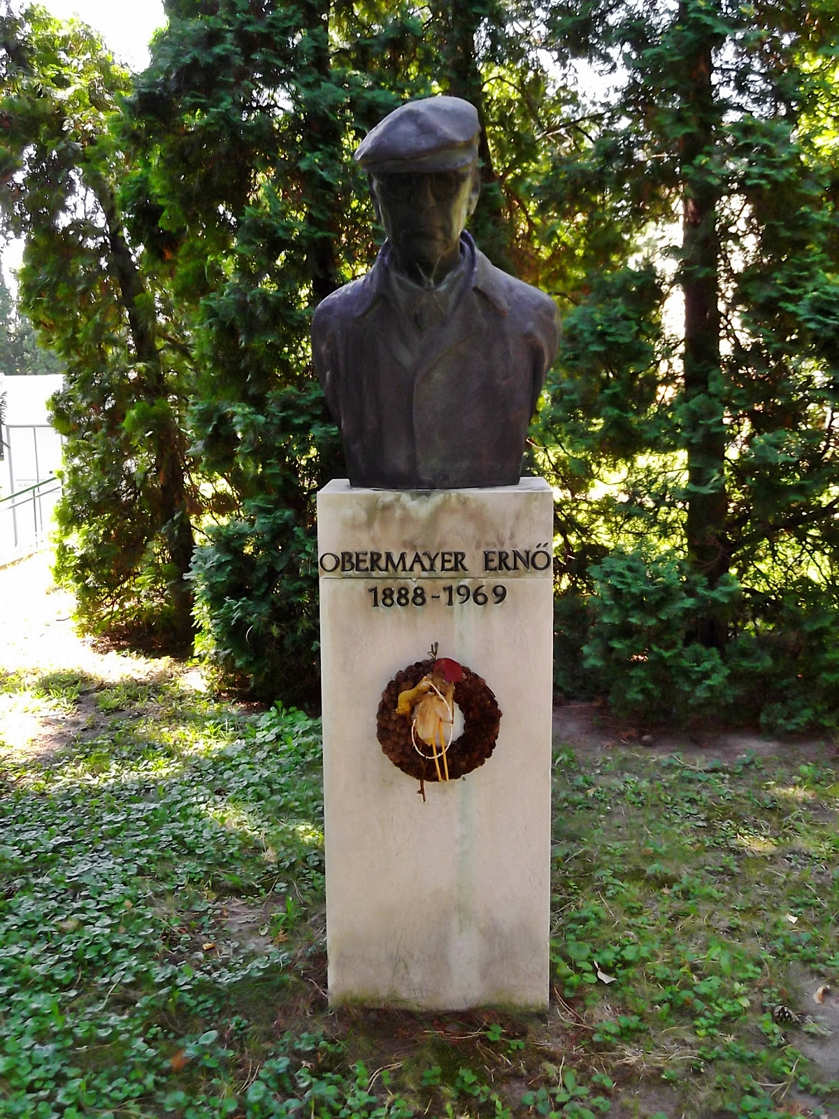 Statue of Obermayer Ernő (work of Lapis András)